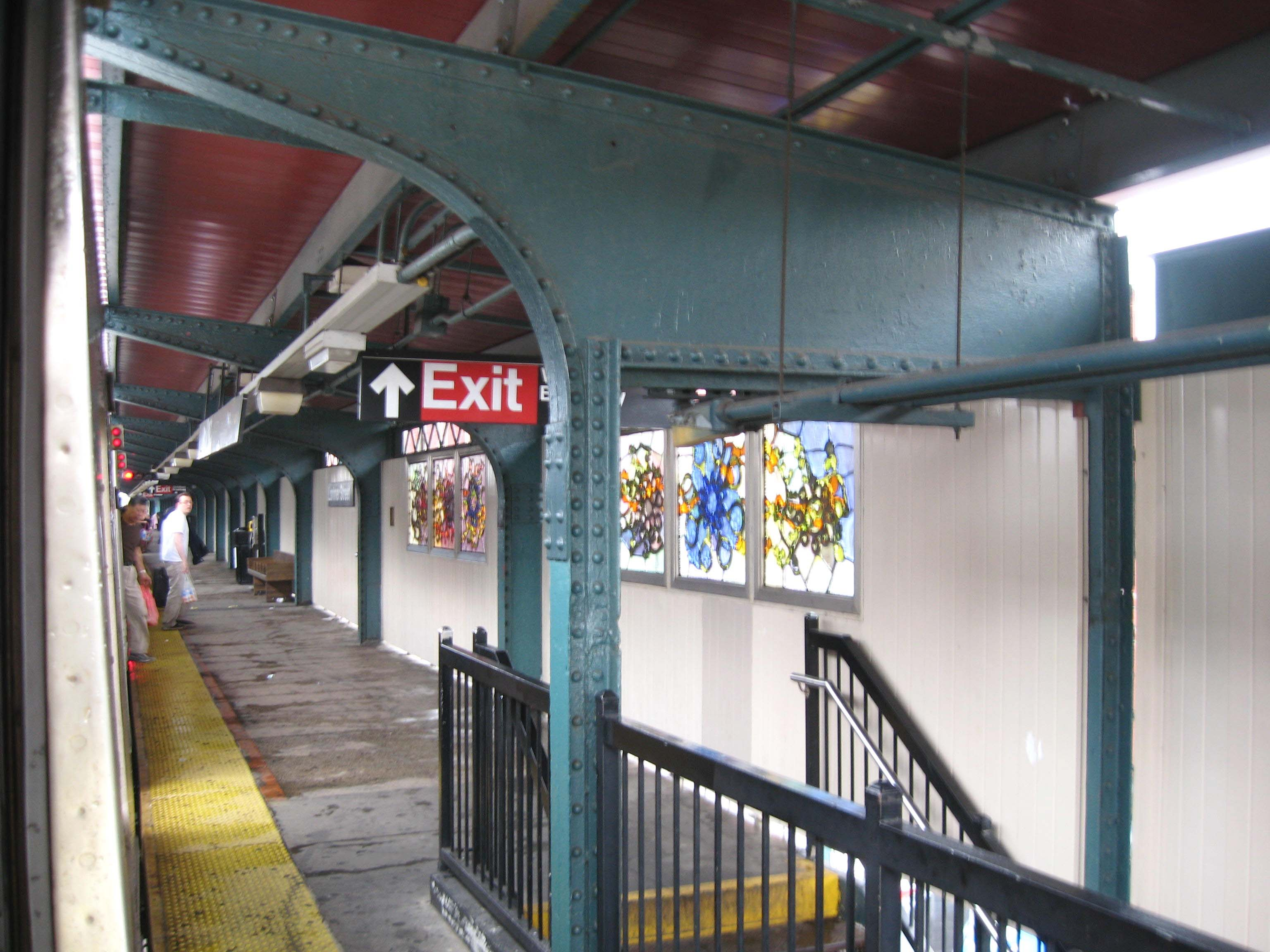 Looking east near west end of southeast bound (RR north bound) platform of Lorimer Street (BMT Jamaica Line) on a rainy afternoon. See File:Lorimer St J stair jeh.JPG for street view.